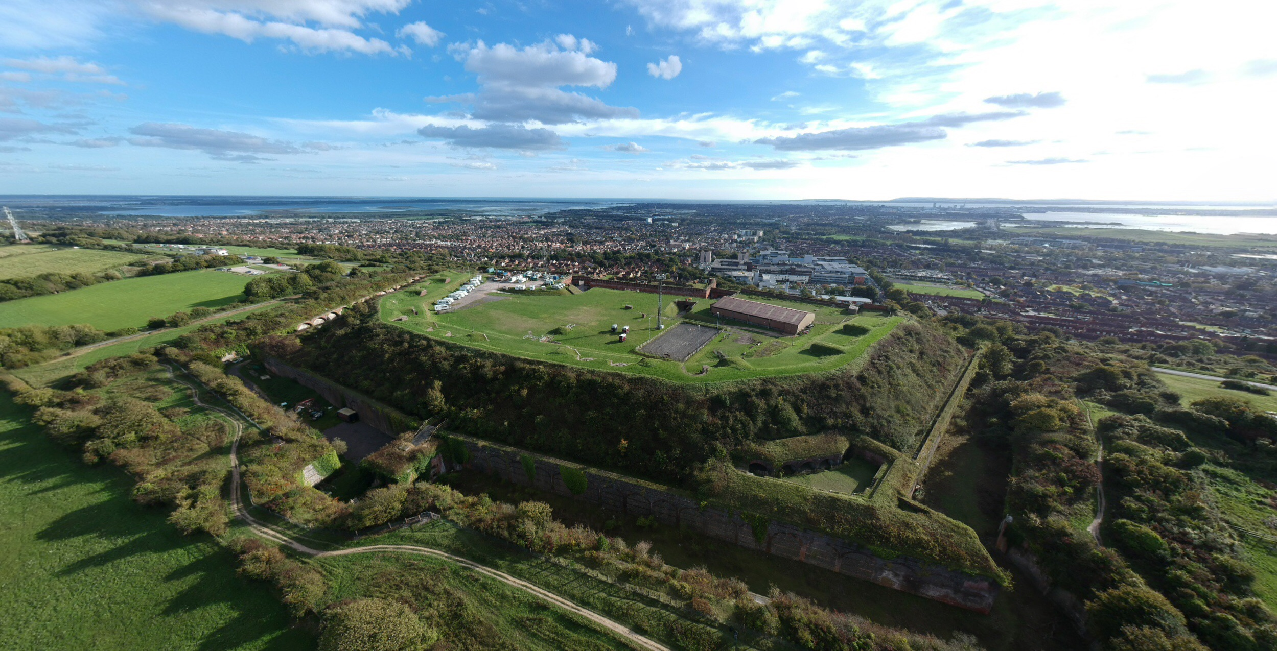 Fort Widley from North, with Portsmouth, Isle of Wight, and Solent